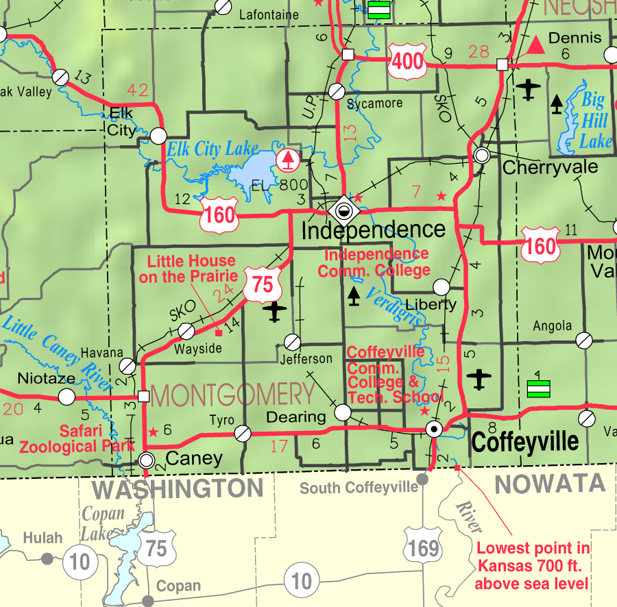 This map of Montgomery County, Kansas, USA, is copied at a resolution of 300 pixels/inch from the original PDF file.